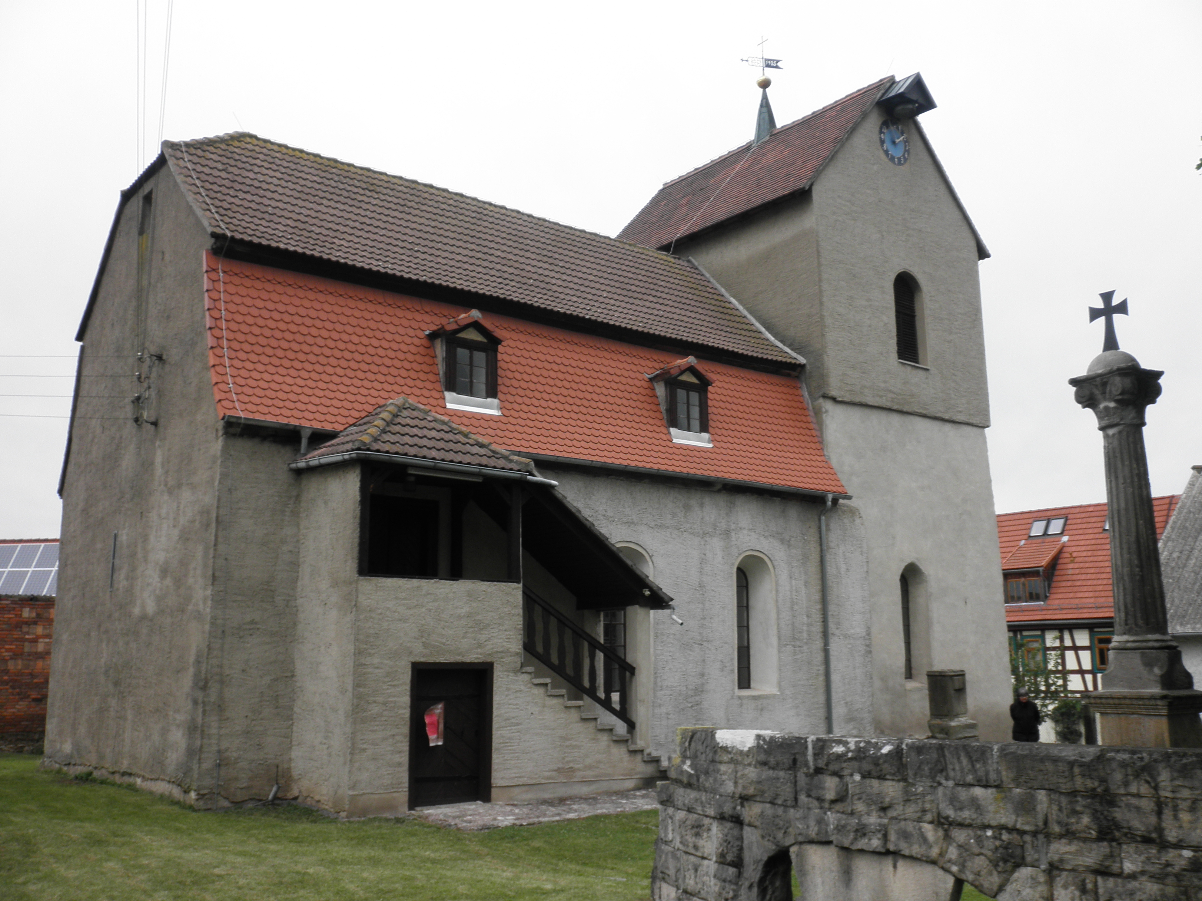 Church in Ulrichshalben (Oßmannstedt) in Thuringia